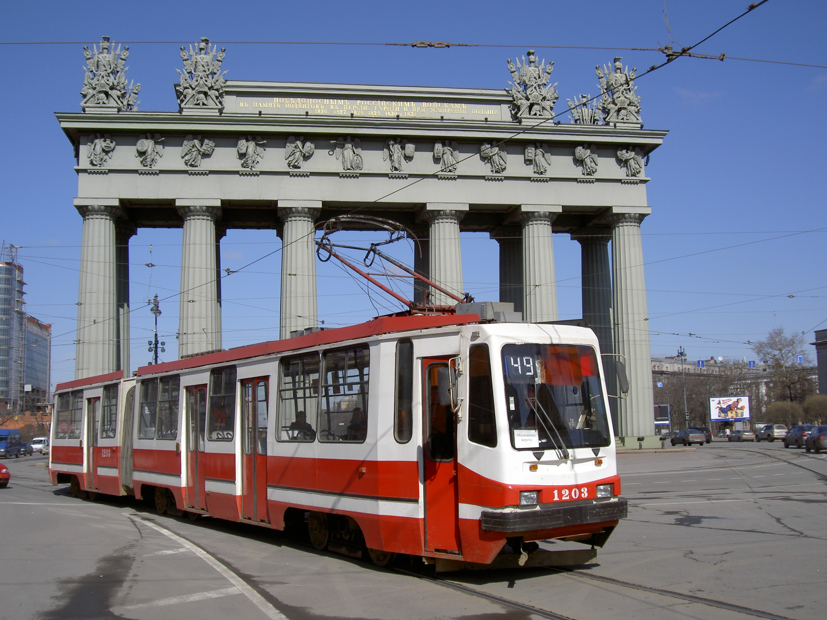 Tram at Moskovskiye Vorota square in Saint Petersburg